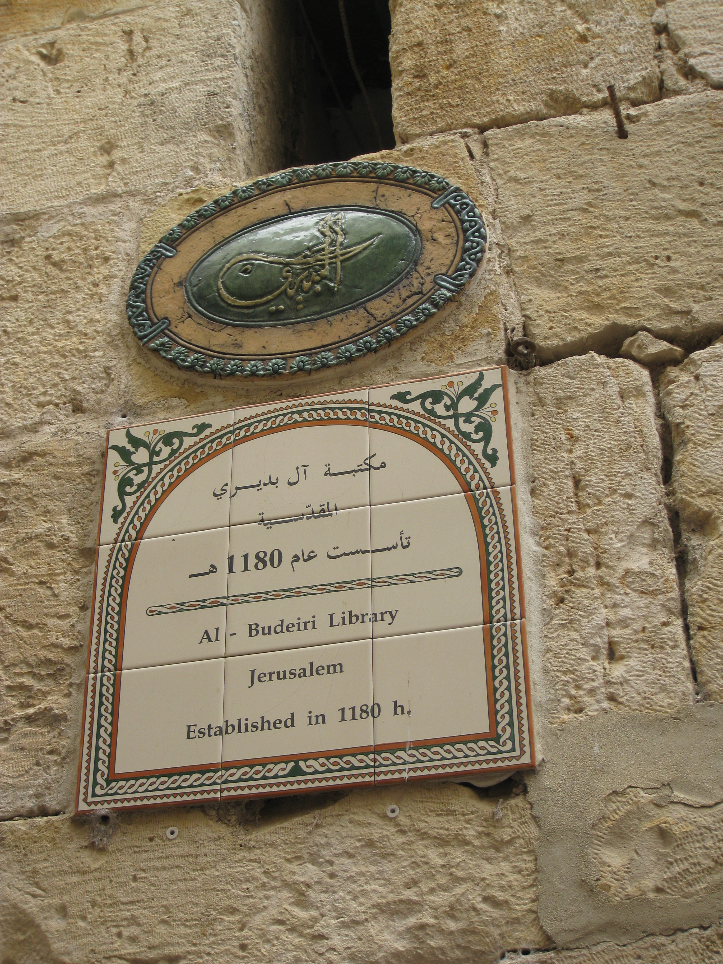 An inscription for the Al-Budeiri Library in the Muslim Quarter of Jerusalem